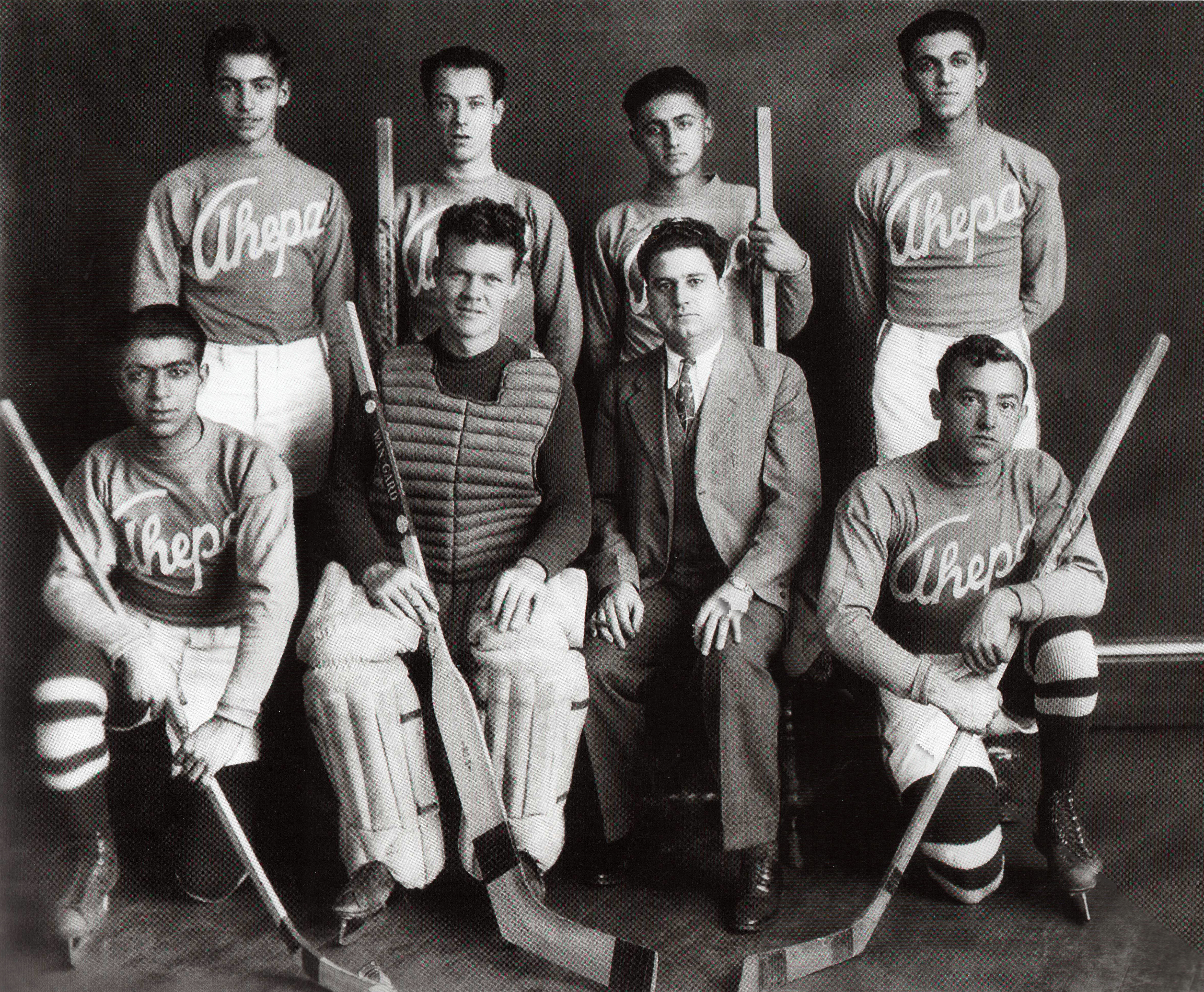 Hockey team of Ahepa, c. 1927